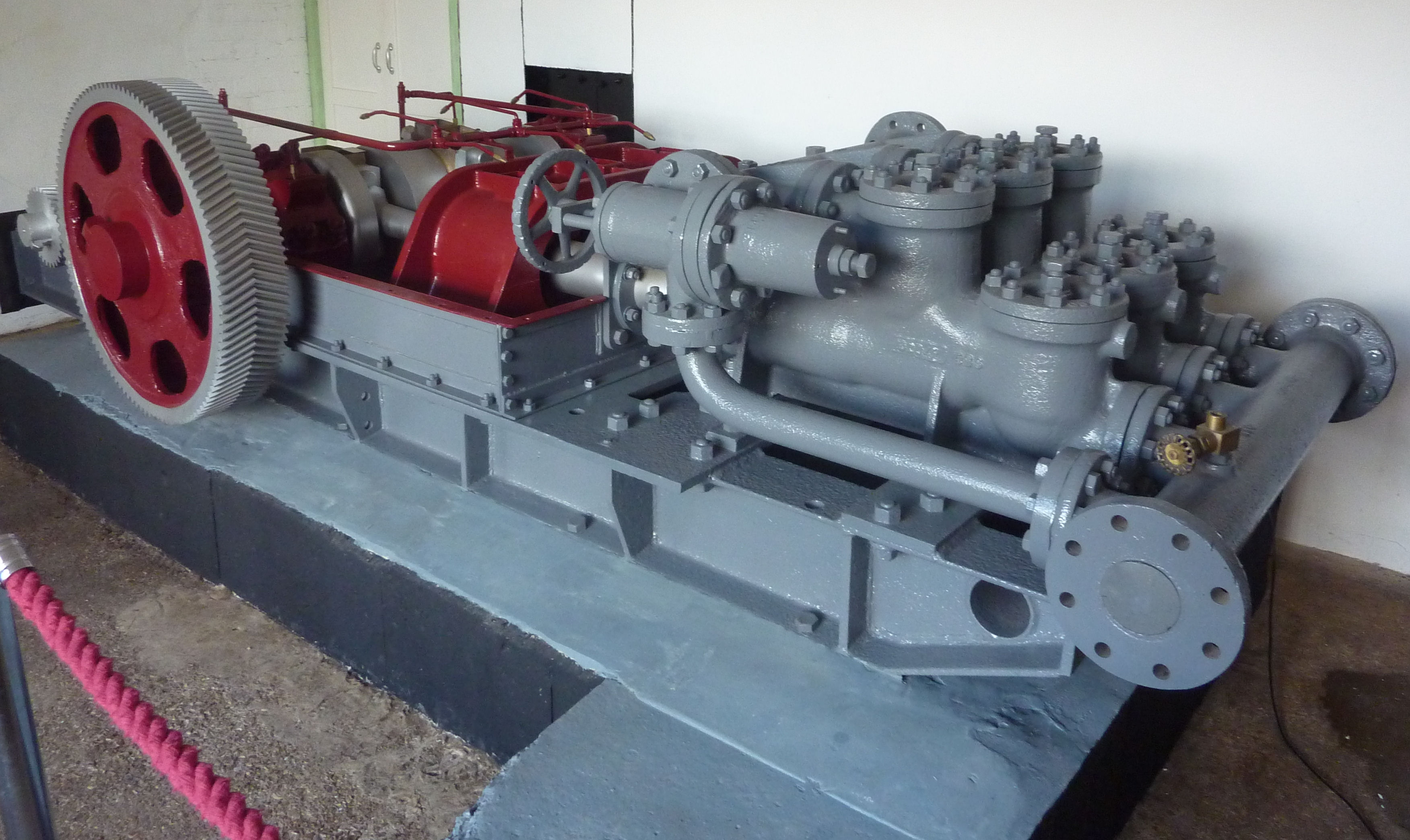 Operation PLUTO (Pipe Line Under The Ocean) Pump from Sandown on the Isle Of Wight